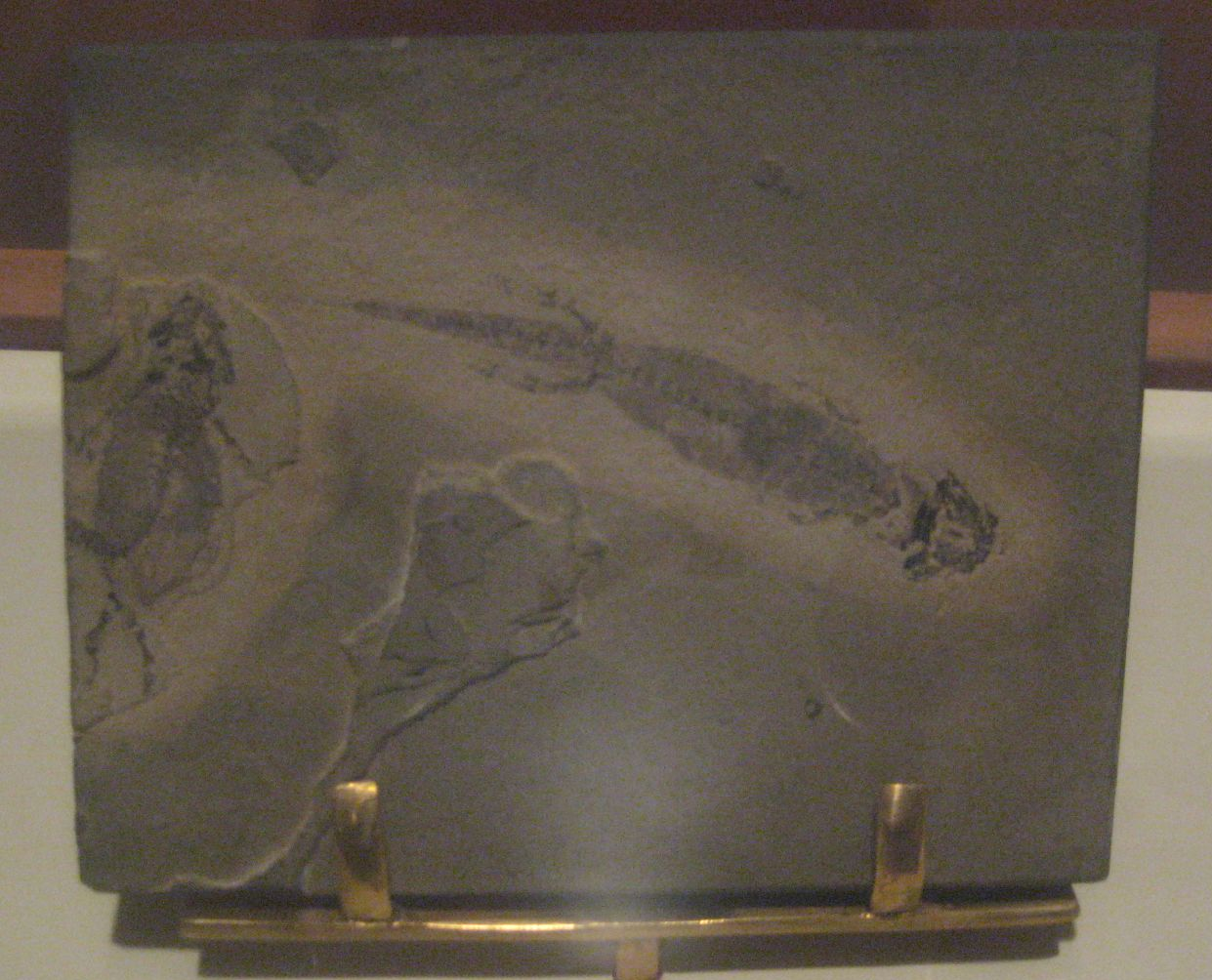 270 million years old Permian